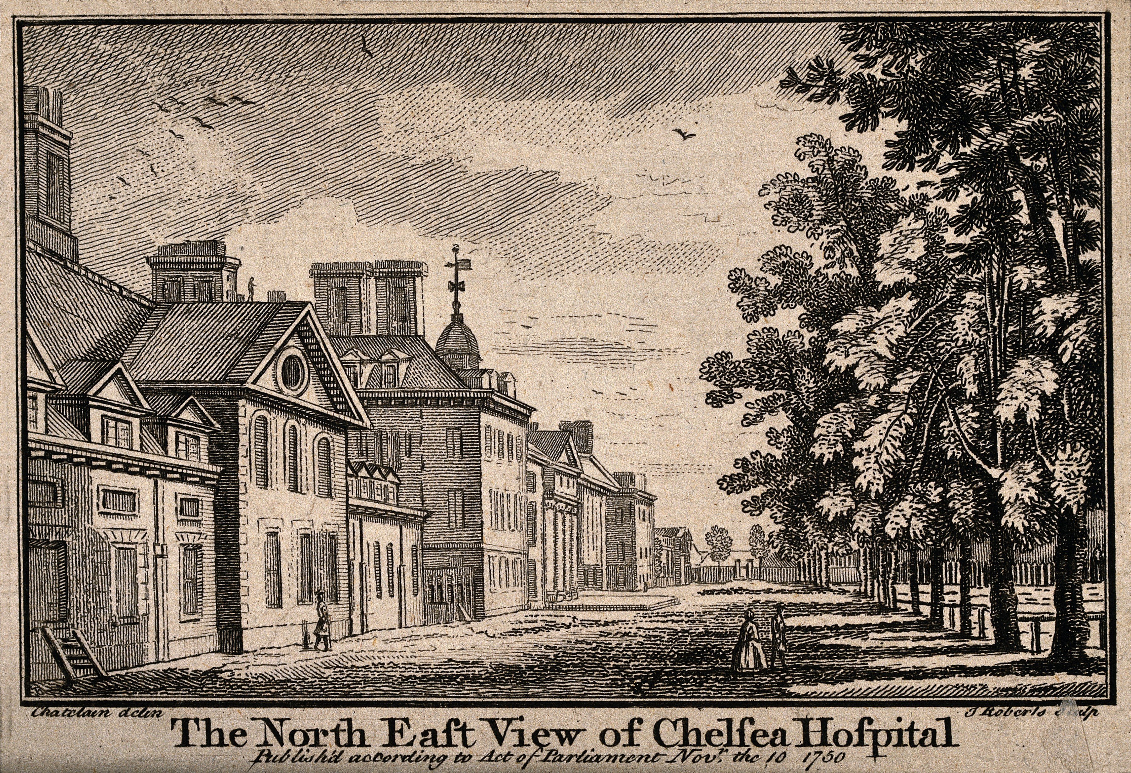 The Royal Hospital, Chelsea: view of the north facade, looking west. Engraving by J. Roberts, 1750, after J.B.C. Chatelain. Iconographic Collections Keywords: Christopher Wren; Royal Hospital (Chelsea); John Roberts; Jean-Baptiste-Claude Chatelain; royal hospital; ic; chelsea